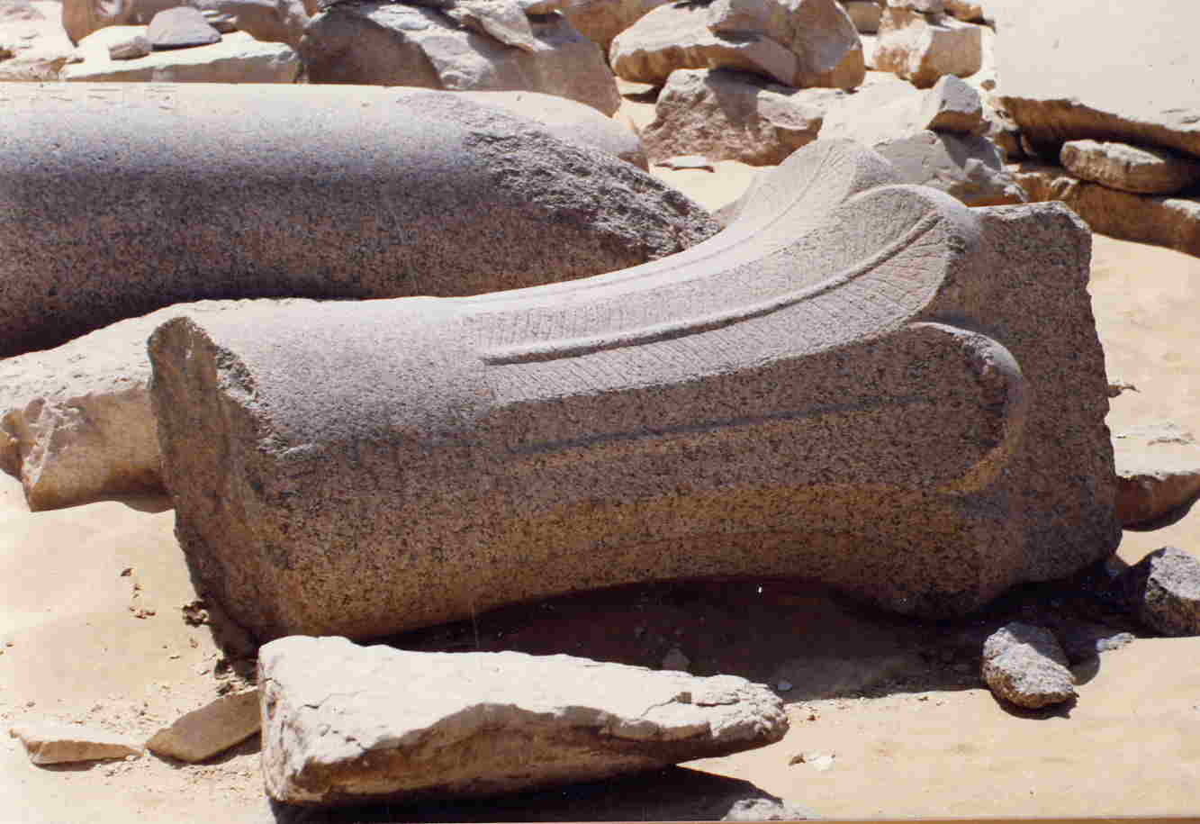 Palmiform capital and Column fragments from the pyramid temple of king Djedkare Isesi, Saqqara